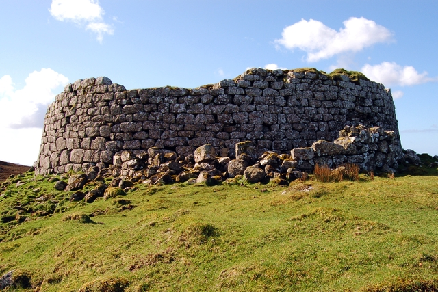 Dun Hallin The best preserved of the several iron age forts on the Waternish peninsula. The walls are around 4m high.